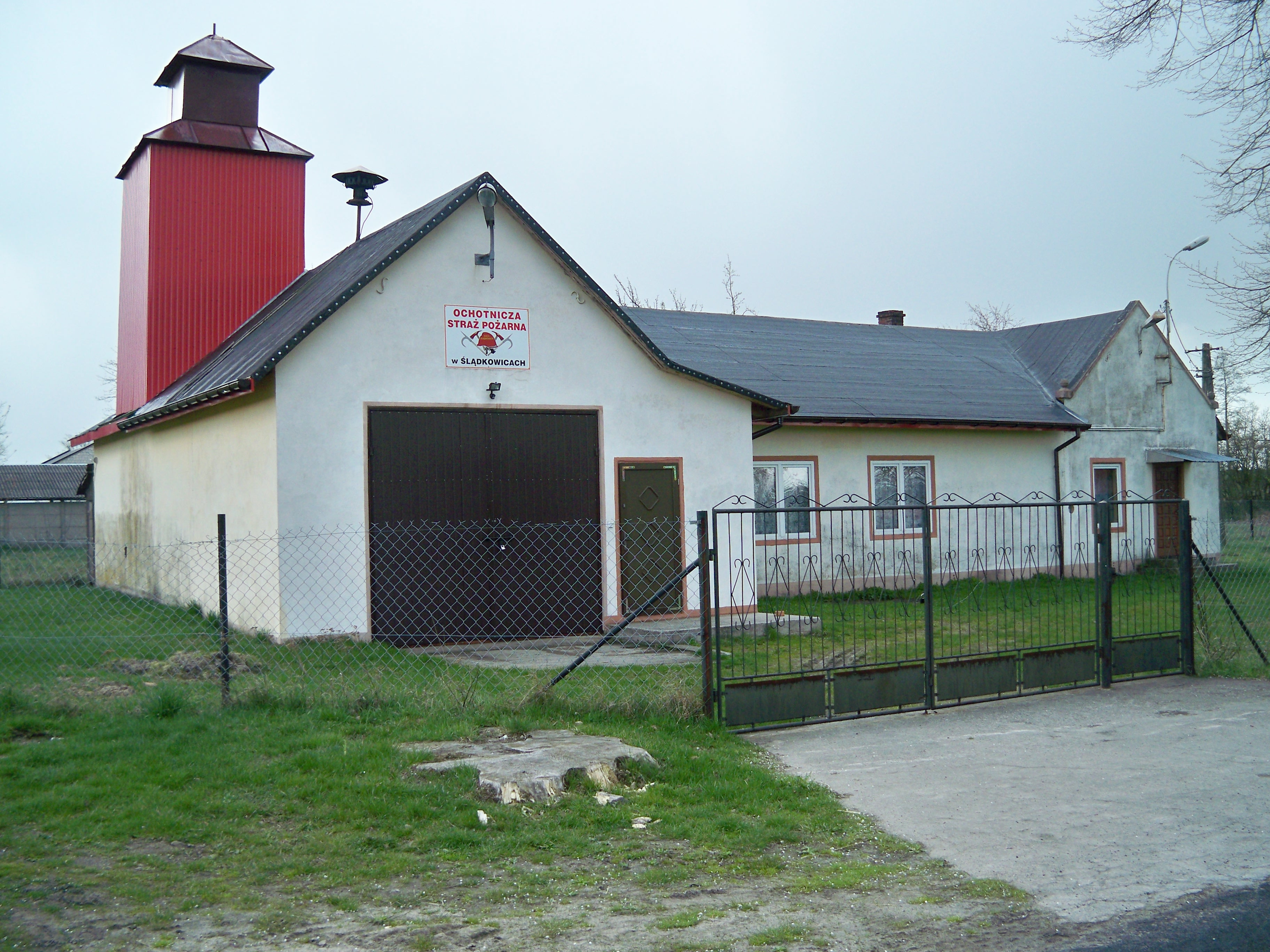 My photo